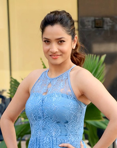 Ankita Lokhande snapped during Manikarnika The Queen Of Jhansi promotions at Novotel Juhu